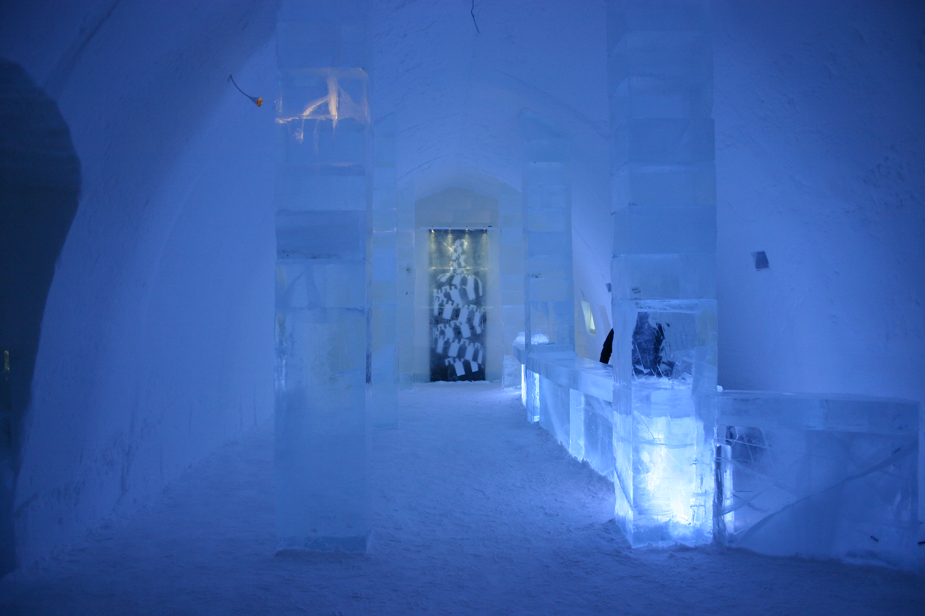 The Ice Hotel in Sweden. The Ice Hotel near the village of Jukkasjärvi, Kiruna, Sweden